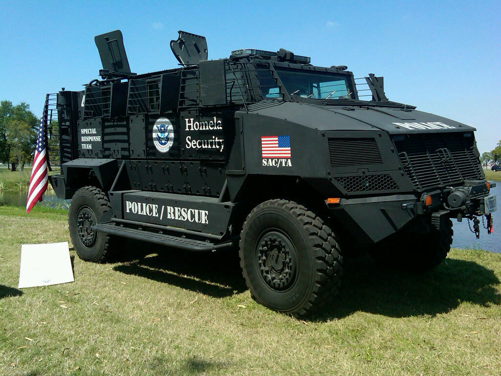 Several law enforcement vehicles were displayed during Det. 340's law enforcement day, including this special response vehicle from Homeland Security.